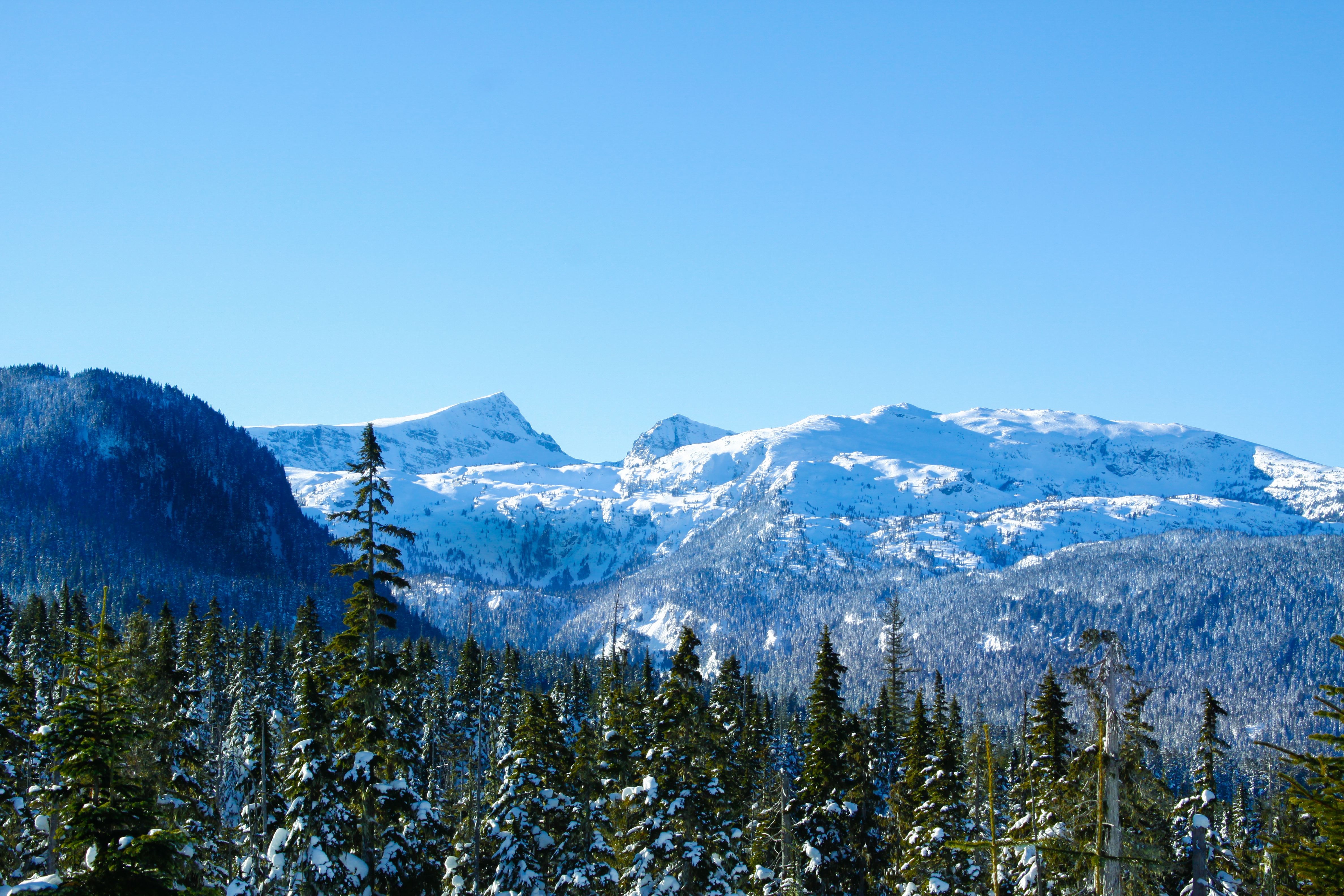 Mount Albert Edward in the distance as viewed from Mount Washington In Strathcona Park